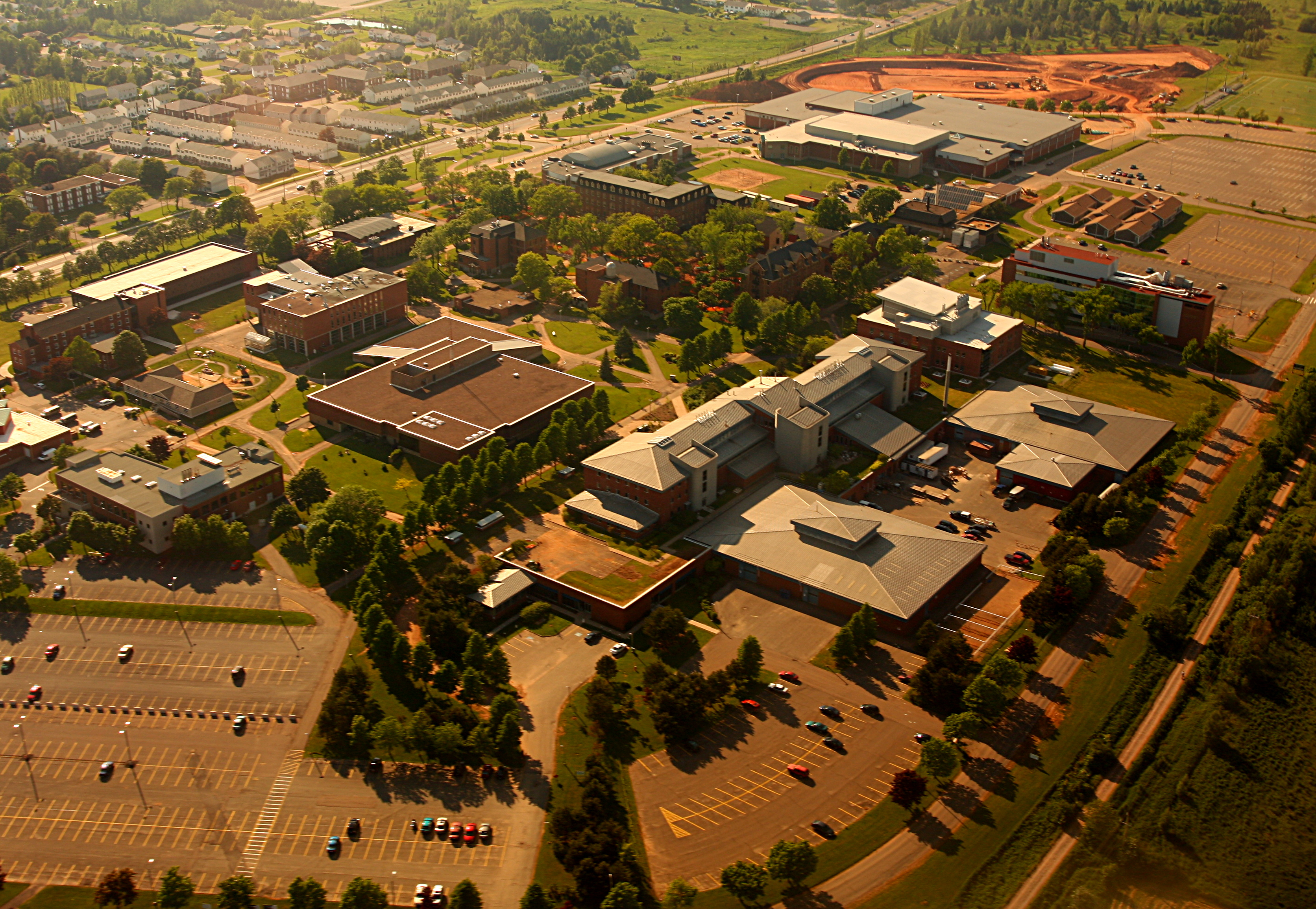 Just after things got really green. You can see the new construction up at the top, for the Canada Games. It was a Friday afternoon, so not a lot of people left at work.